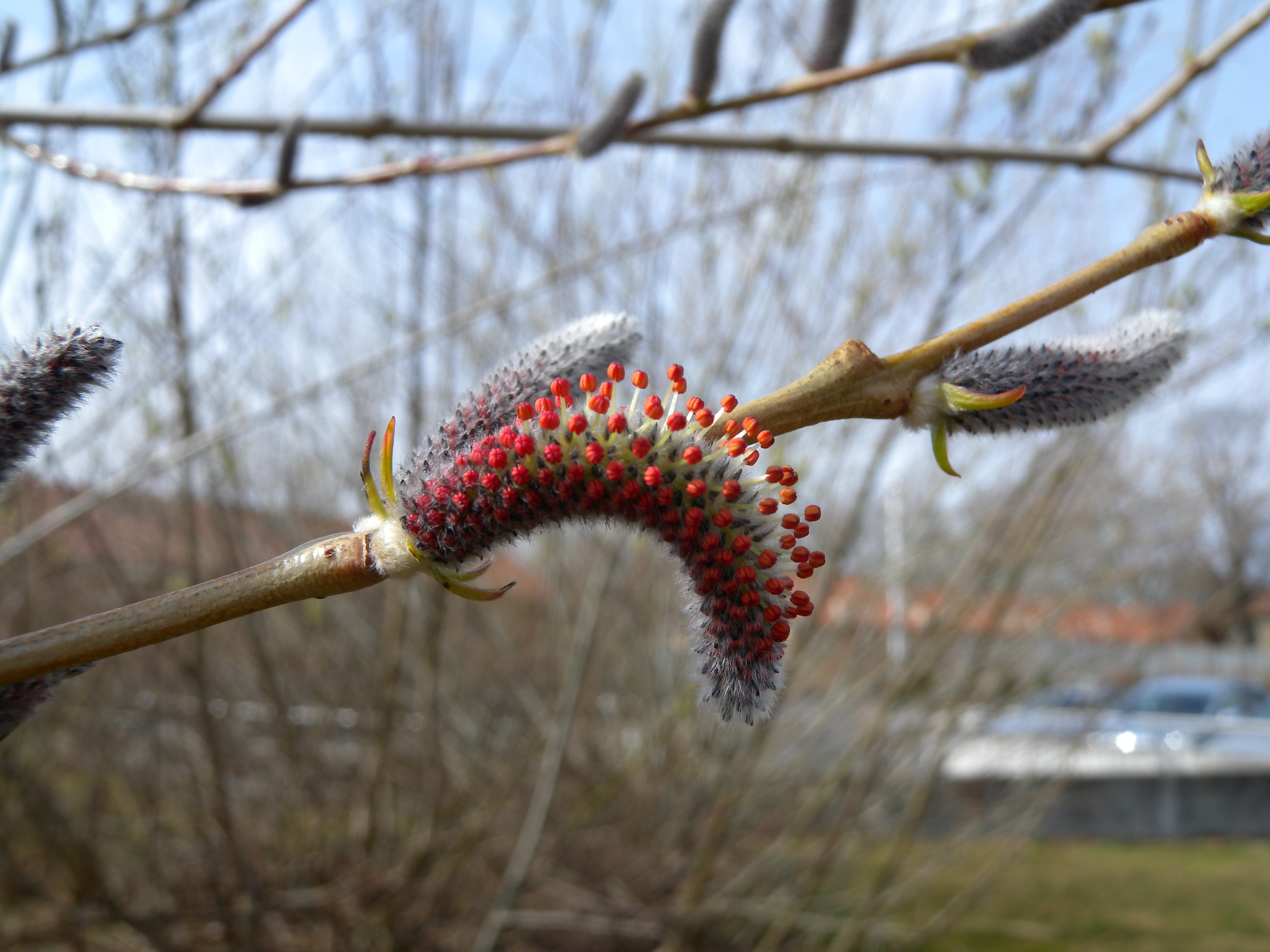 Male catkin of Salix purpurea (Salicaceae) with conspicuous red anthers; Bern, Switzerland